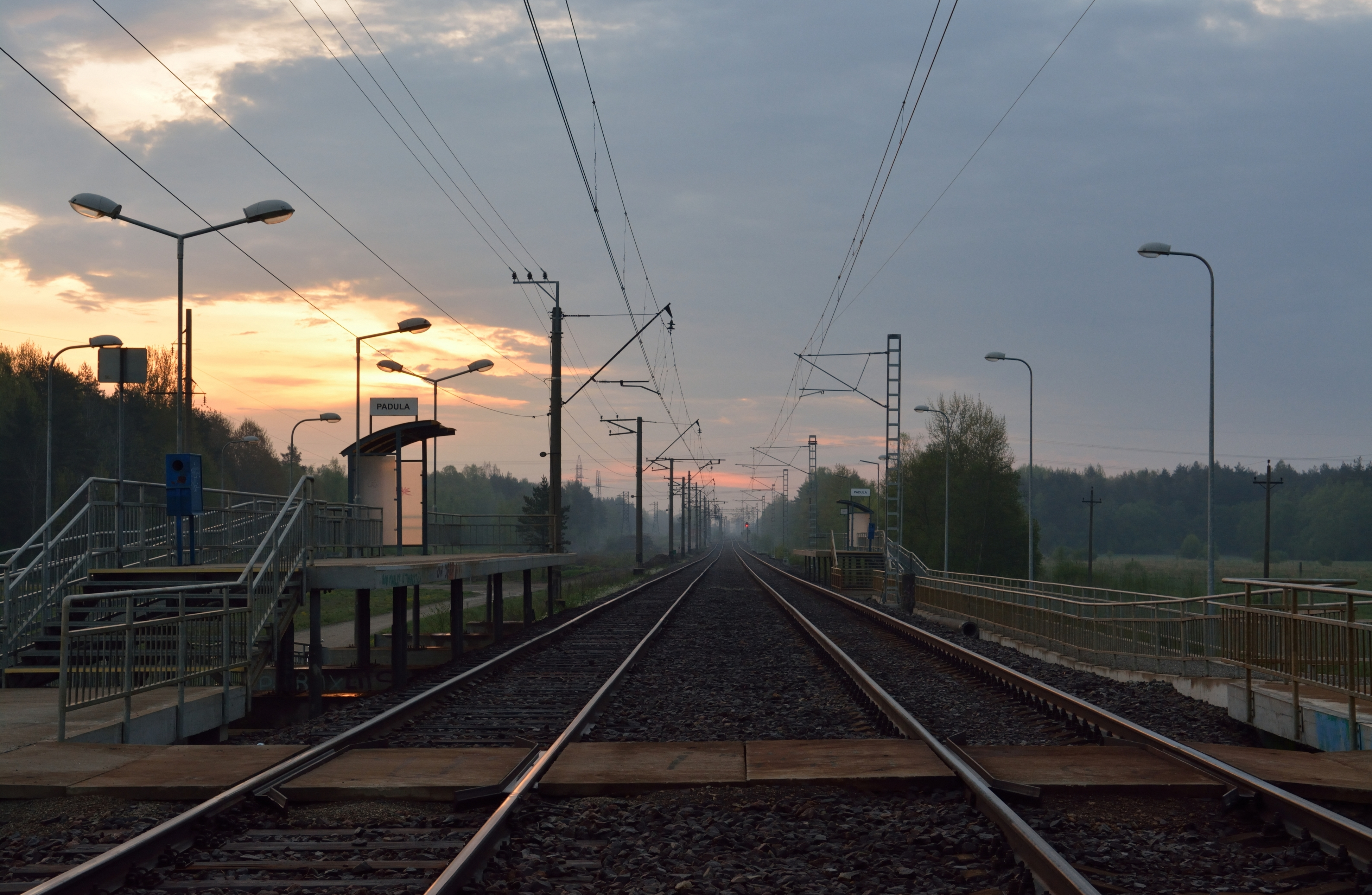 Padula train stop